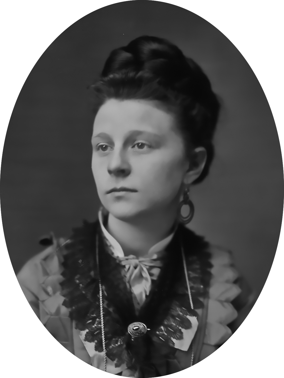 Mrs. Harris - This is NOT Miss Clara Harris wife of Major Rathbone[1]